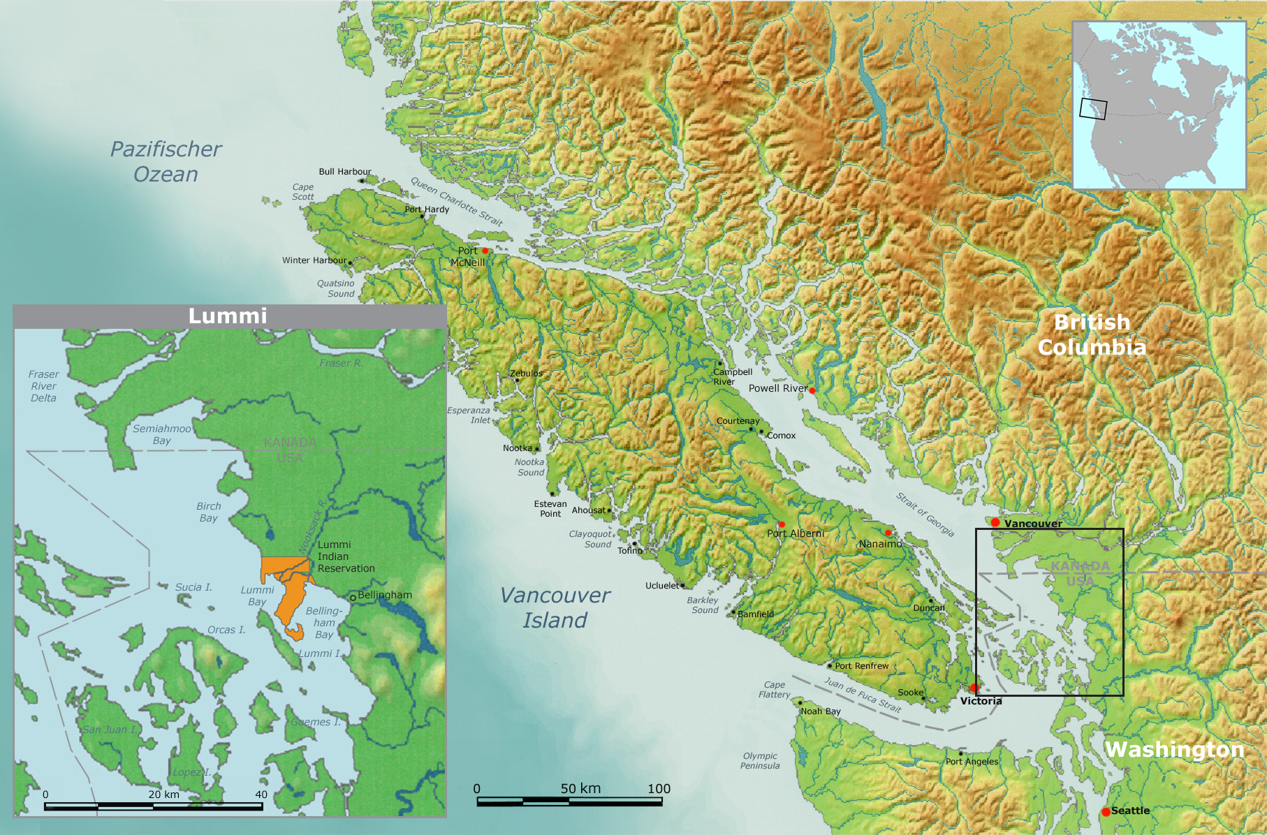 Map of traditional Lummi tribal territory and Indian Reservation.